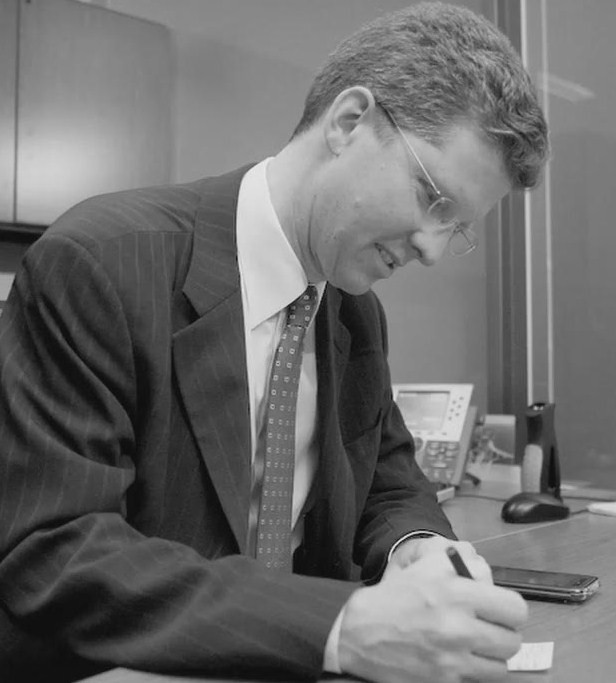 Shaun Donovan, President-elect Barack Obama's nominee for Secretary of Housing and Urban Development. This picture is a frame capture from a file posted to the Obama-Biden Presidential Transition website, the copyright policy of which states, "Except where otherwise noted, content on this site is licensed under a Creative Commons Attribution 3.0 License. Content includes all materials posted by the Obama-Biden Transition project."